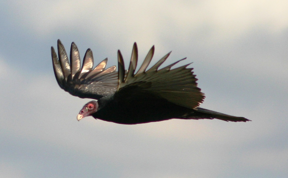 A flying Turkey Vulture Cathartes aura with its wings held upward in a shallow V. Shark Valley, Everglades National Park, Florida, USA.